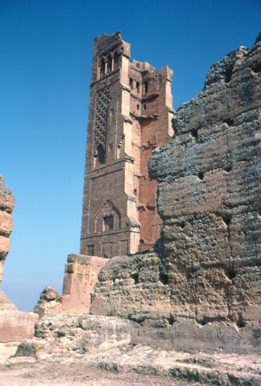 Near the frontier with Morocco are the seldom visited ruins of Mansoura several kilometers outside of Tlemcen, Algeria. Camping was possible nearby. This shot came from a 35mm negative taken 33 years ago from a Yashica ELECTRO 35CC consumer camera, scanned by an HP Scanjet 5470c and rendered and restored using multiple Photoshop operations.